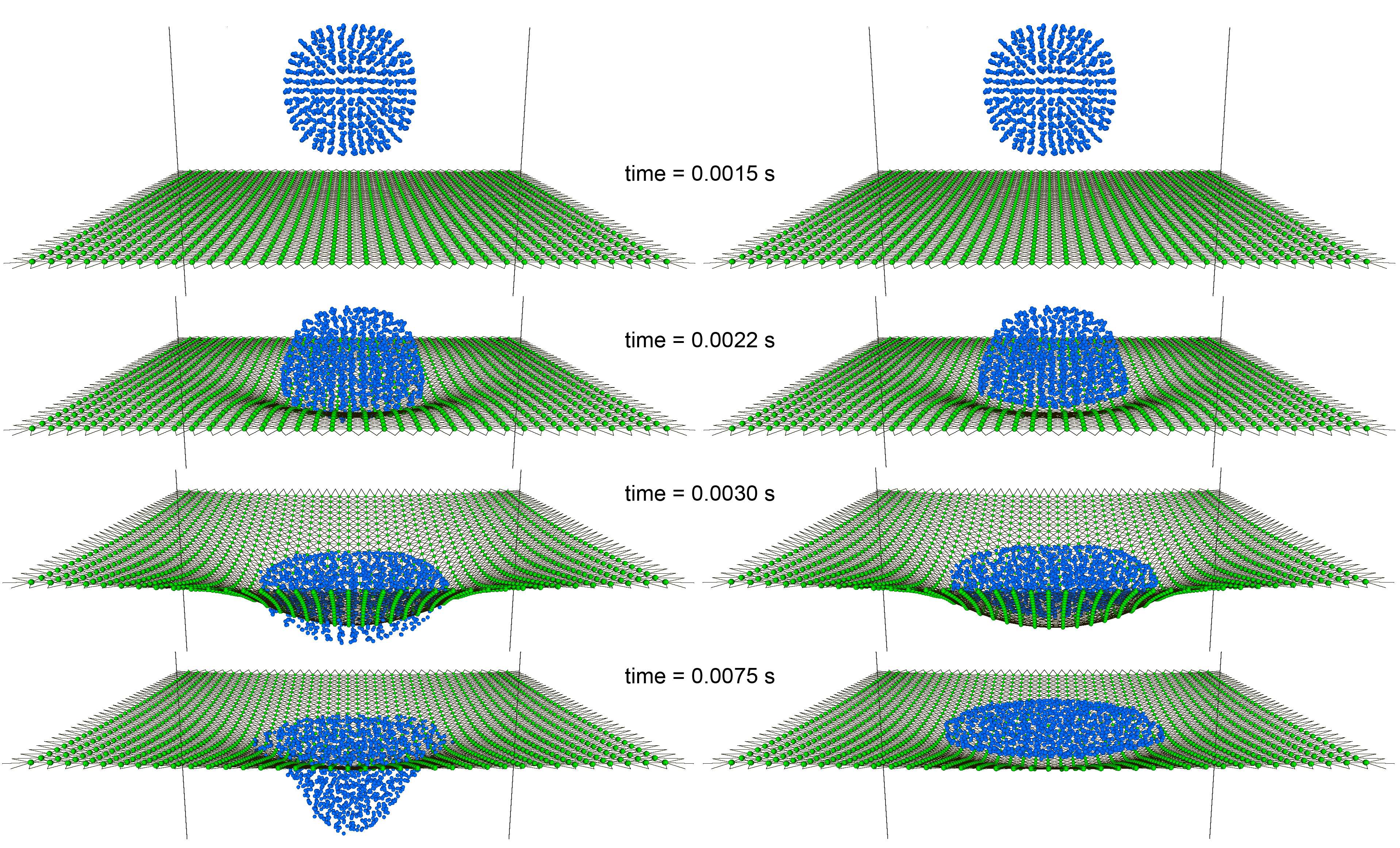 Sibernetic - a software platform aimed at simulation of invertebrates biomechanics, based on imcompressible smoothed particle hydrodynamics (PCISPH). Illustration of basic types of matter used in the simulation. The image illustrates the process of interaction between permeable an impermeable elastic membrane with a falling drop of liquid.